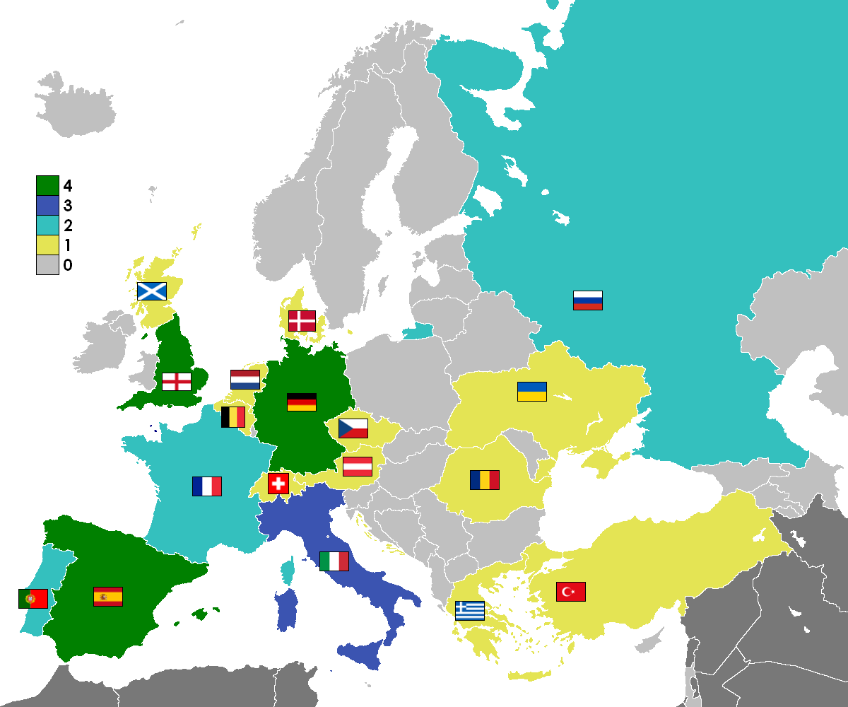 Map of countries which have a representative in group stage at the UEFA Champions League (2013/14). 4 representatives 3 representatives 2 representatives 1 representative no representative not UEFA member